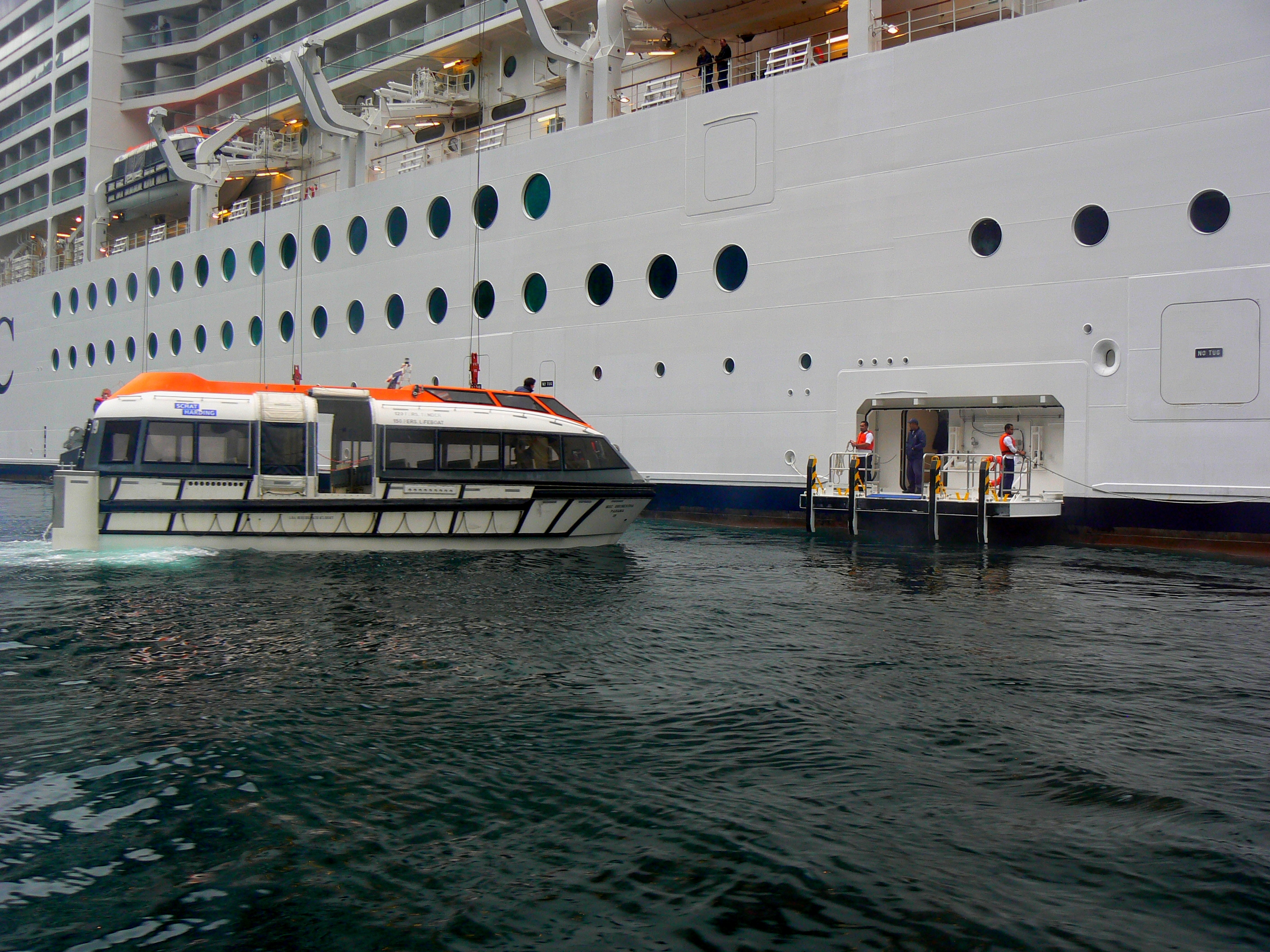 A tender boat of the MSC Orchestra, Summer 2010